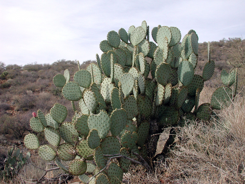 Opuntia chlorotica from the Wickenburg Mountains, Yavapai County, Arizona, USA